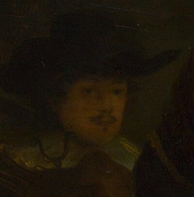 Copy of The Night Watch by Rembrandt. This copy is particularly important because it shows sections of the original painting that were cut away and lost in the 18th century.